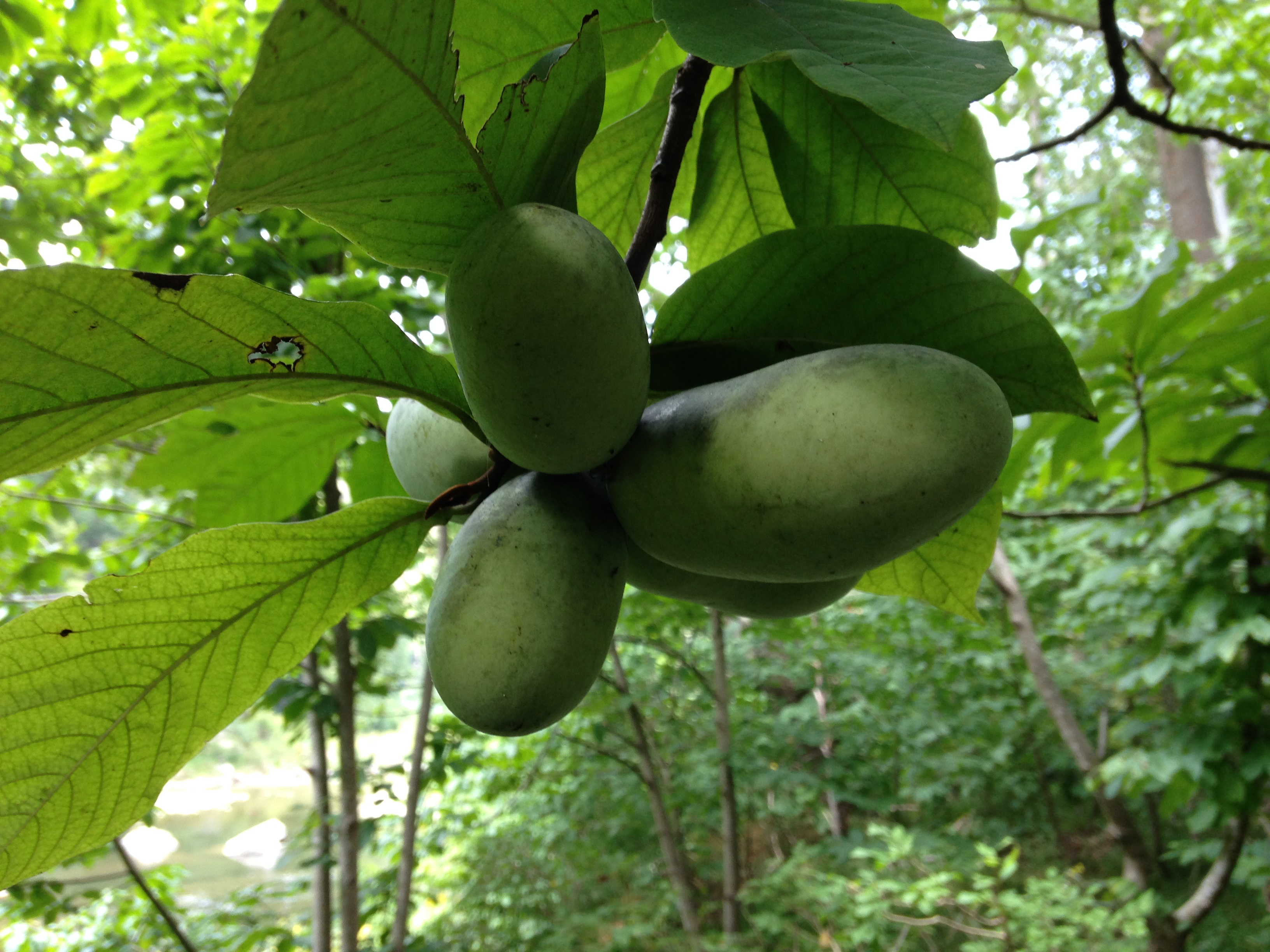 Fruit of common pawpaw (Asimina triloba) in the lower Smoke Hole Canyon, Grant County, West Virginia, USA.